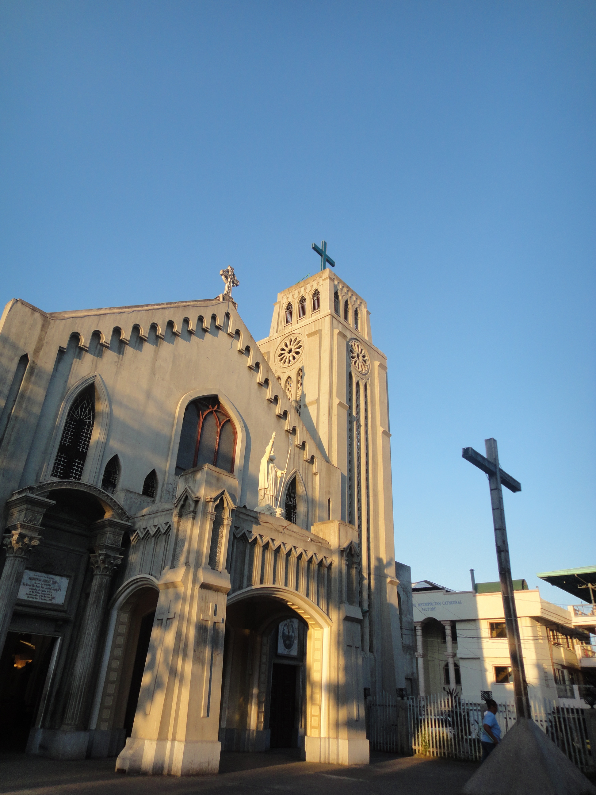 San Agustin Church is located across Gaston Park and the City Hall in Cagayan De Oro, Philippines. A Gothic church originally built in 1845 and re-built in 1946 after its bombing during World War II.